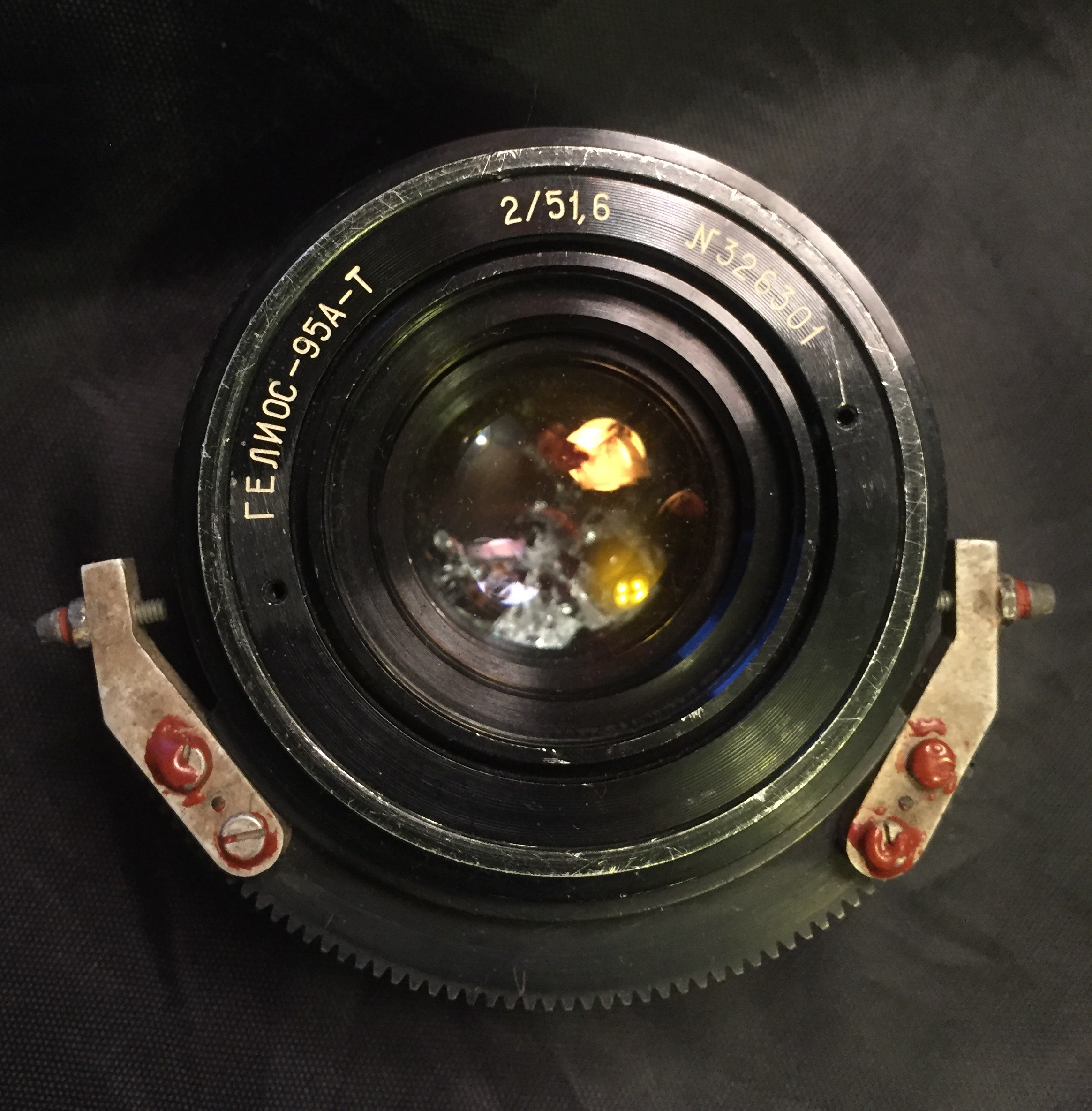 Lens for “KTP” - series of soviet security video cameras.